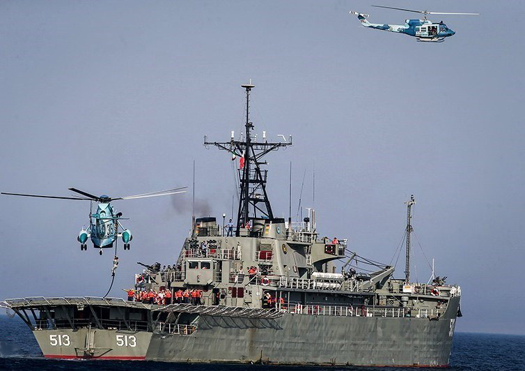 Velayat 94 Military exercise that hold in February 2016 in the range of Strait of Hormuz and northern Indian Ocean